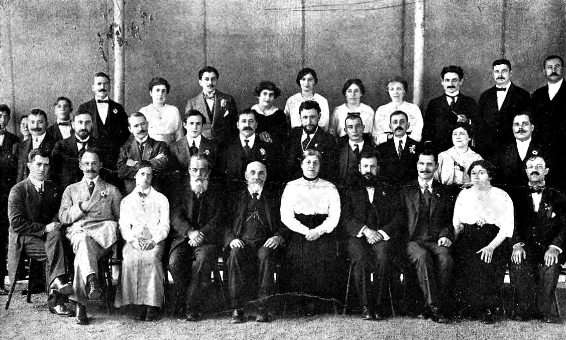 Romanian socialists in Ploieşti, at the 60th anniversary of Constantin Dobrogeanu-Gherea. Front row (seated), from left: Alecu Constantinescu (second), Ecaterina Arbore (third), Constantin Dobrogeanu-Gherea (fifth), Christian Rakovsky (seventh), I.C. Frimu (eight), Leon Geller (last). Middle row, from left: Gheorghe Cristescu (third), Alexandru Dobrogeanu-Gherea (fifth), Ottoi Călin (sixth), Ion Sion (seventh), Dimitrie Marinescu (last).